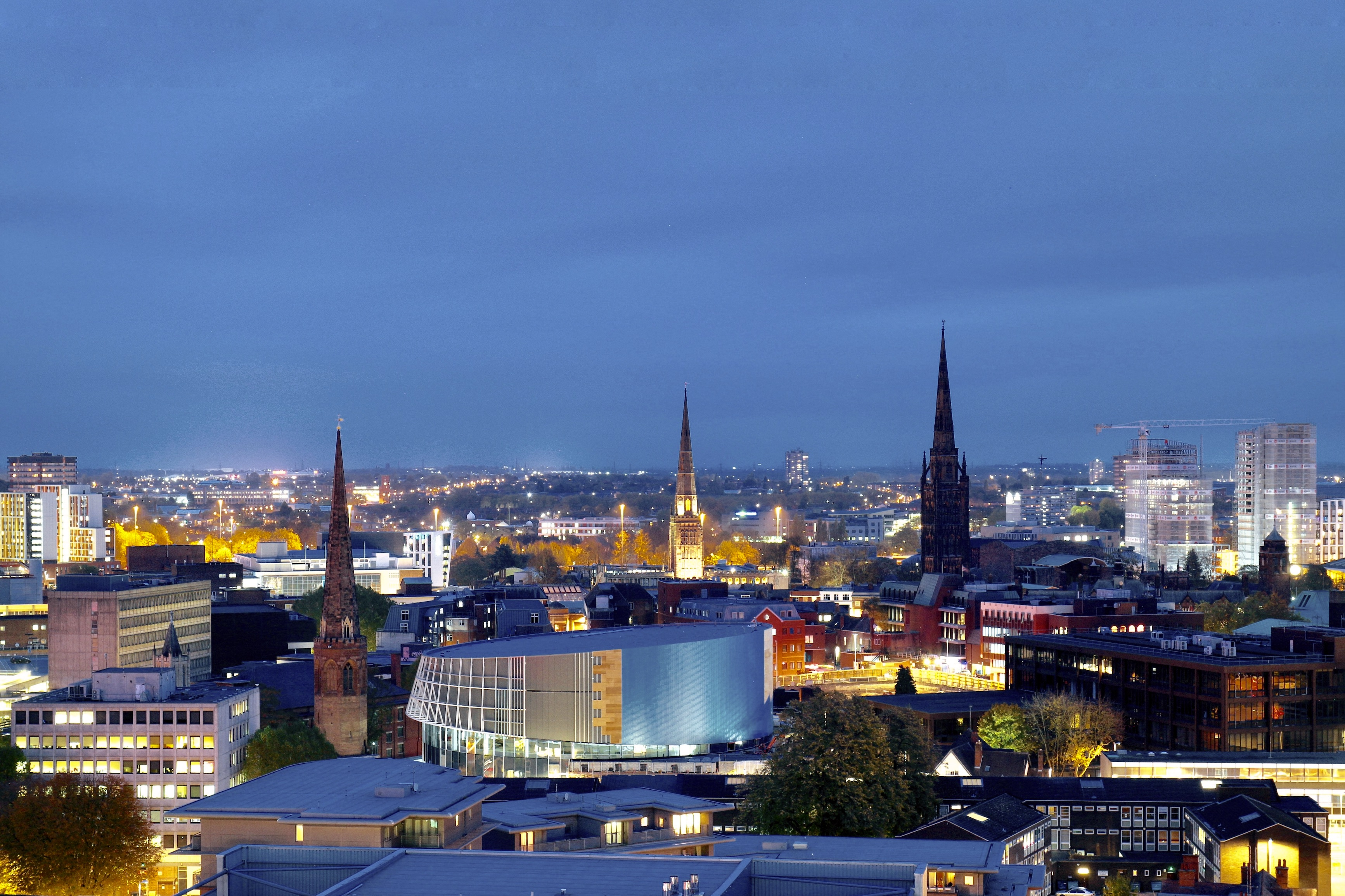 Coventry City Centre from One Friargate View of the three spires of Coventry city centre taken from the balcony of One Friargate in Coventry, United Kingdom on 23 October 2018 18:24:10.